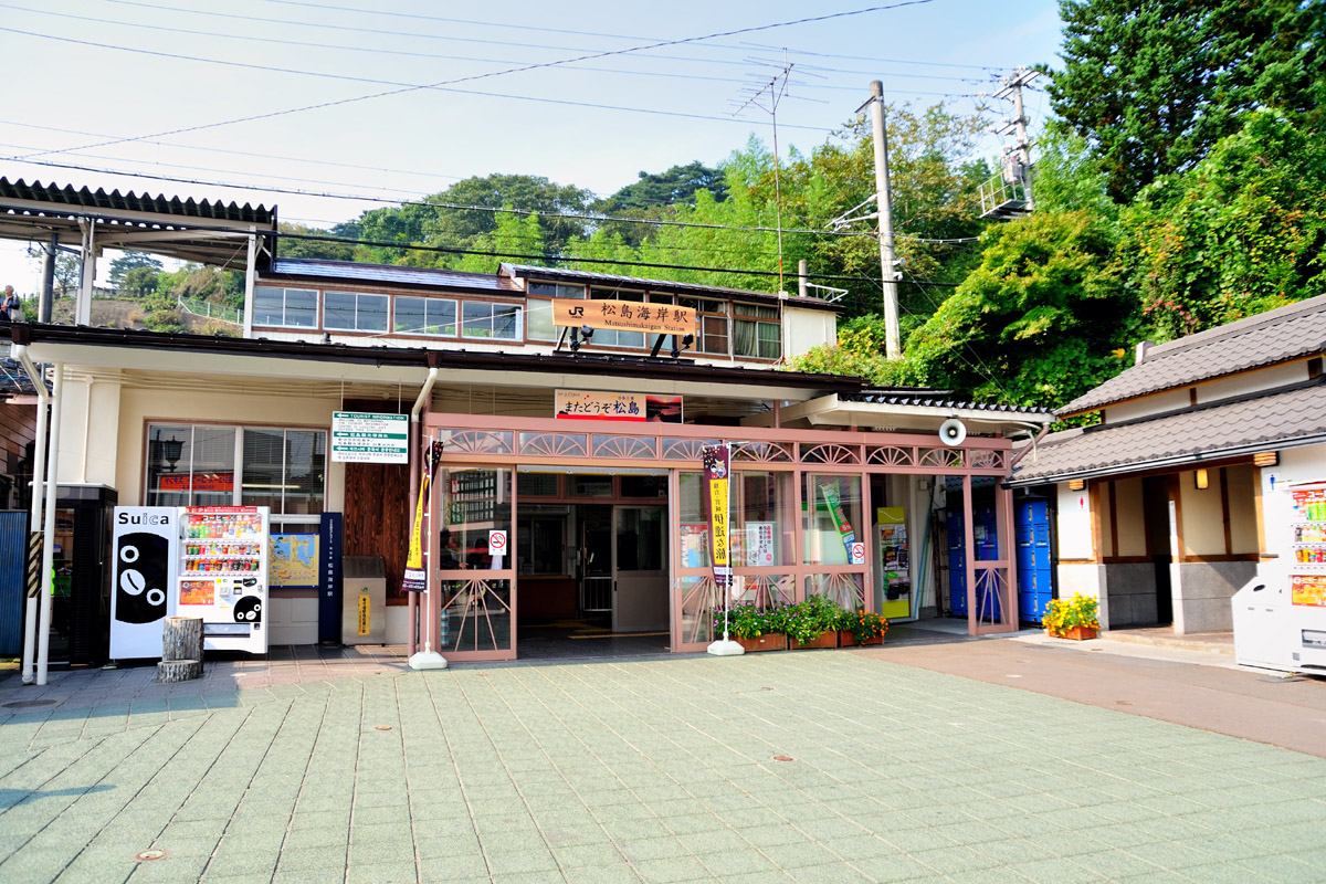 JR East Matsushima-Kaigan Station